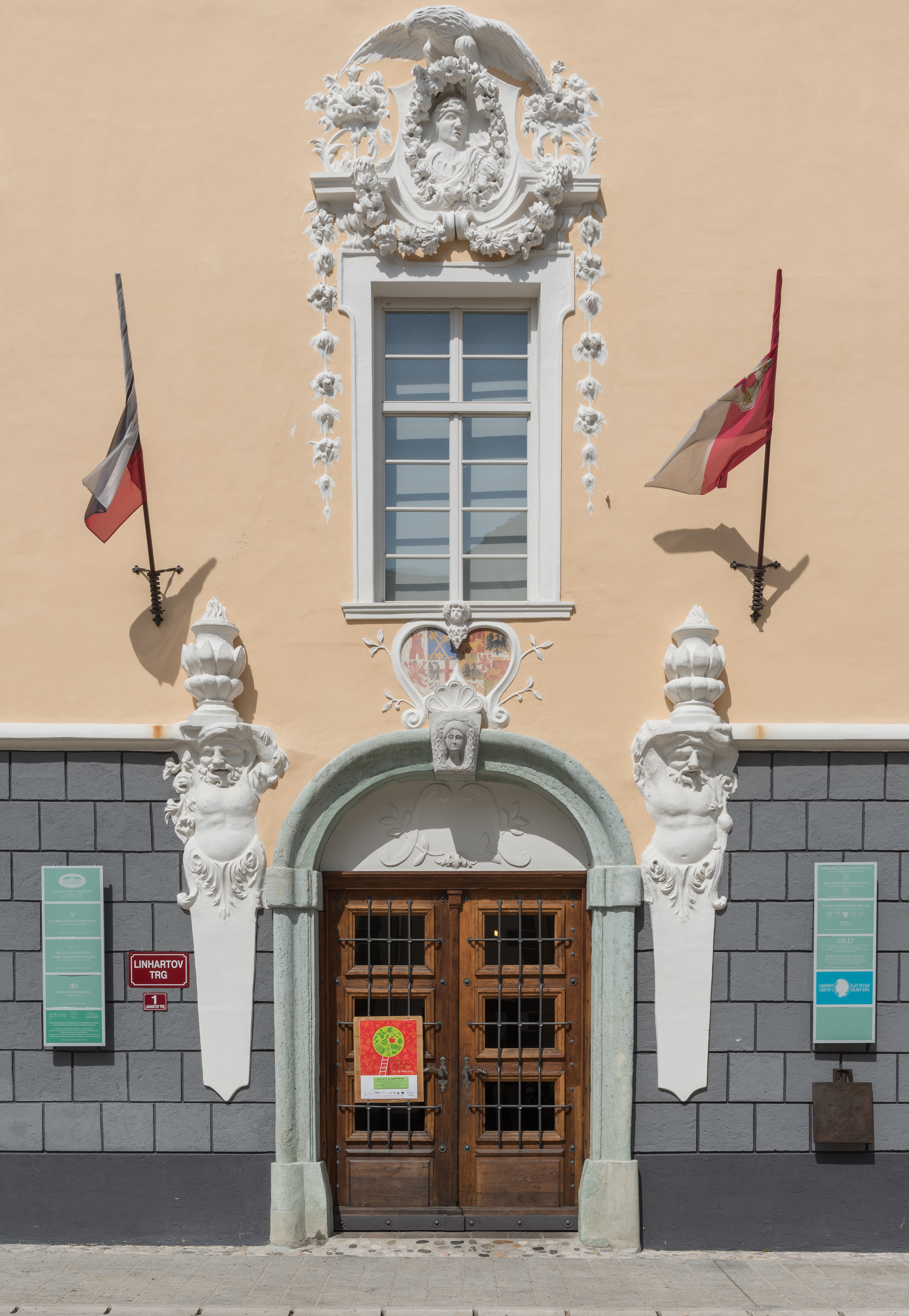 Cutout from the facade of castle Thurn on Linhart square #1 in Radovljica, municipality Radovljica, Upper Carniola, Slovenia, EU